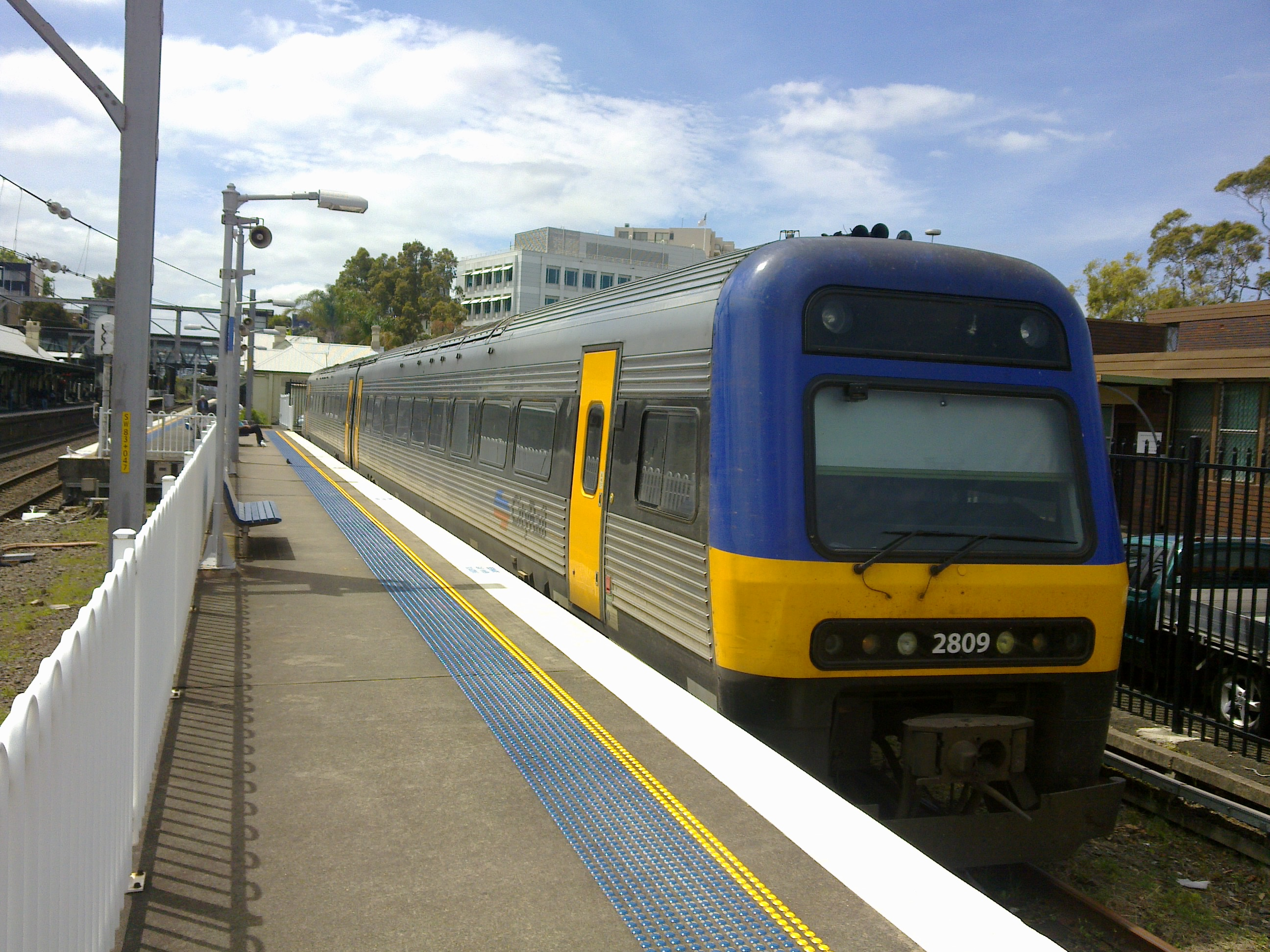 CityRail Endeavour Railcar 2809